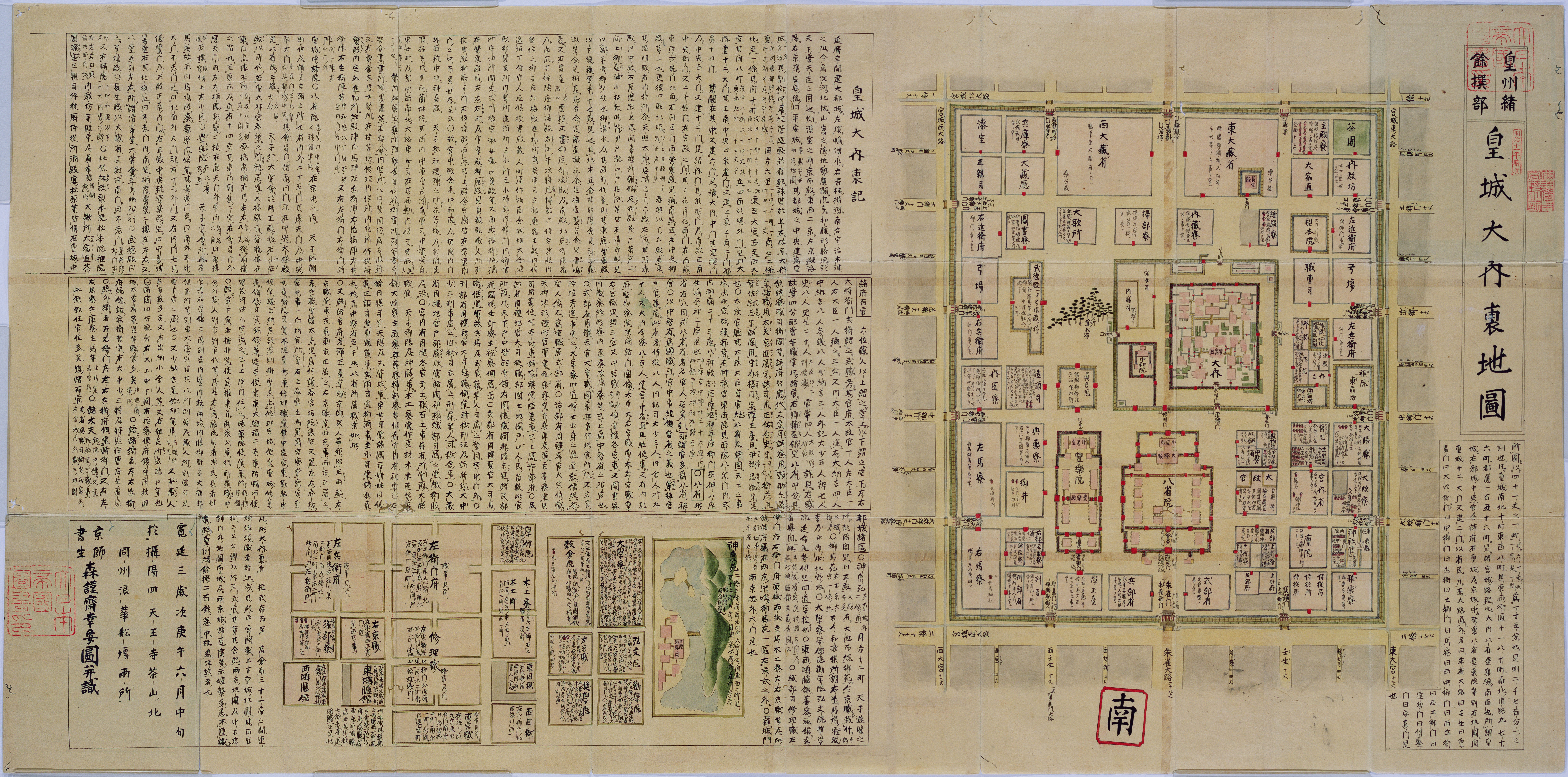 Plan of Daidairi. Transcribed by Mori Koan in 1750.